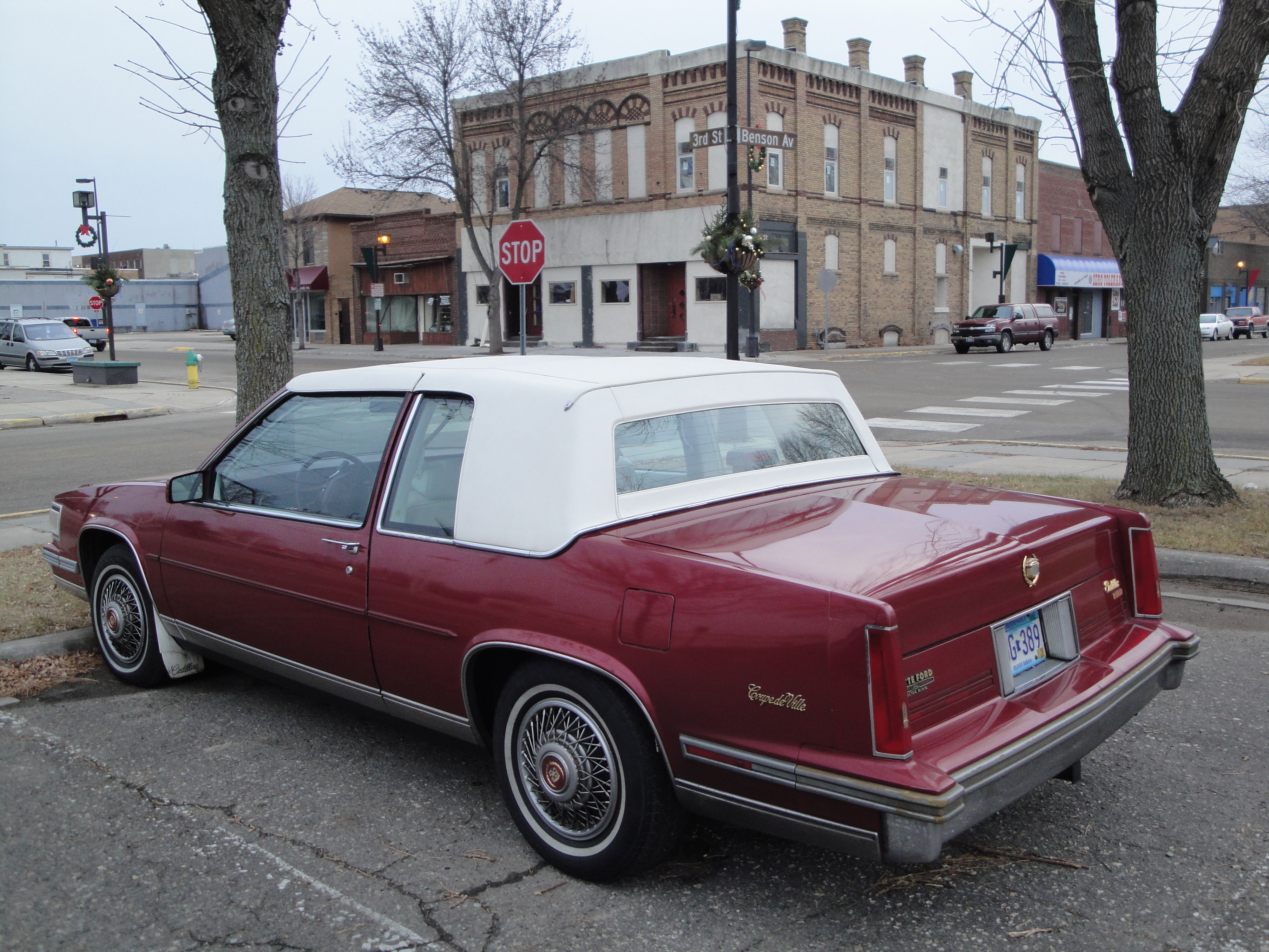 I was traveling to the Twin Cities for the Magnum's free oil change and 30K check up. I was surprised that not all the interesting old cars were tucked away.